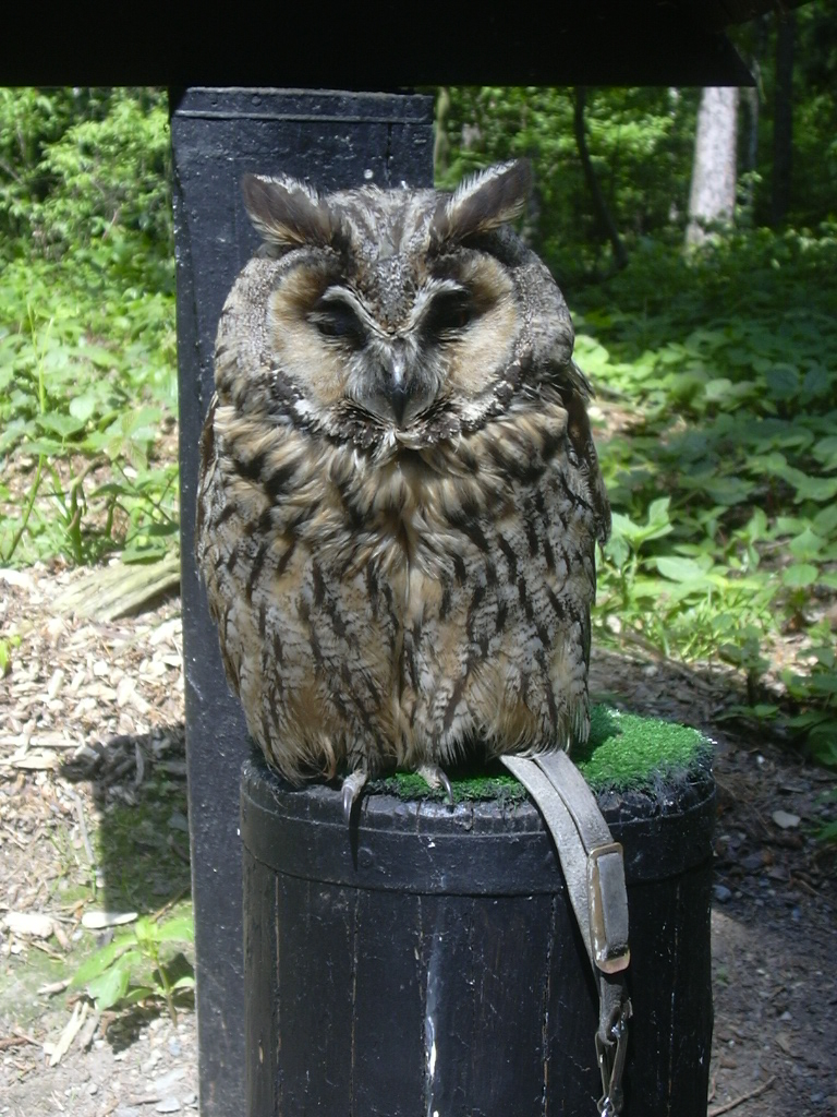 Long-eared owl